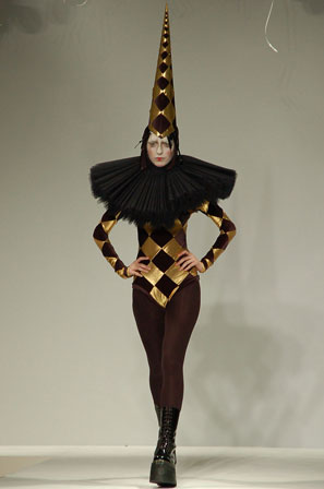 Gareth Pugh design (Fall 2006 collection) at London fashion Week